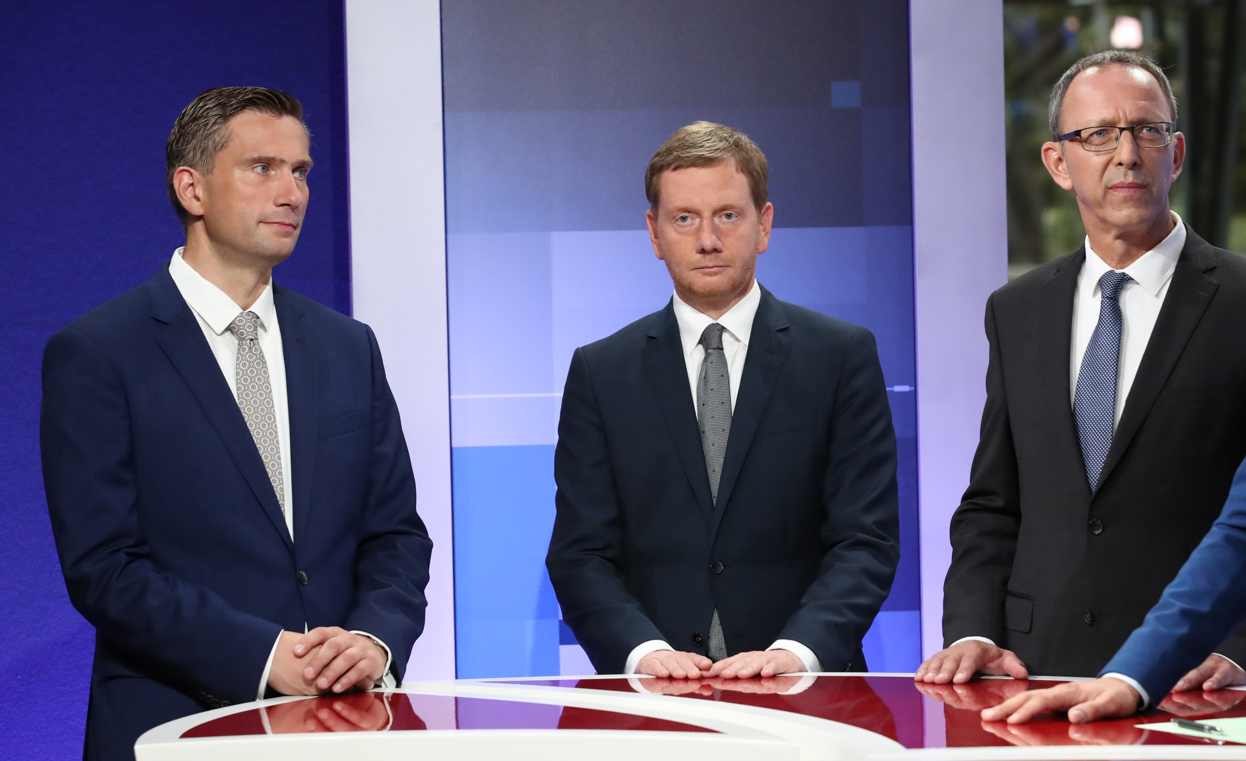 Election night Saxony 2019: Martin Dulig (SPD), Prime minister Michael Kretschmer (CDU), Jörg Urban (AfD)